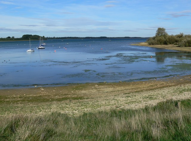 Small bay near Edith Weston Next to Rutland Sailing Club on the south-eastern shore of Rutland Water.